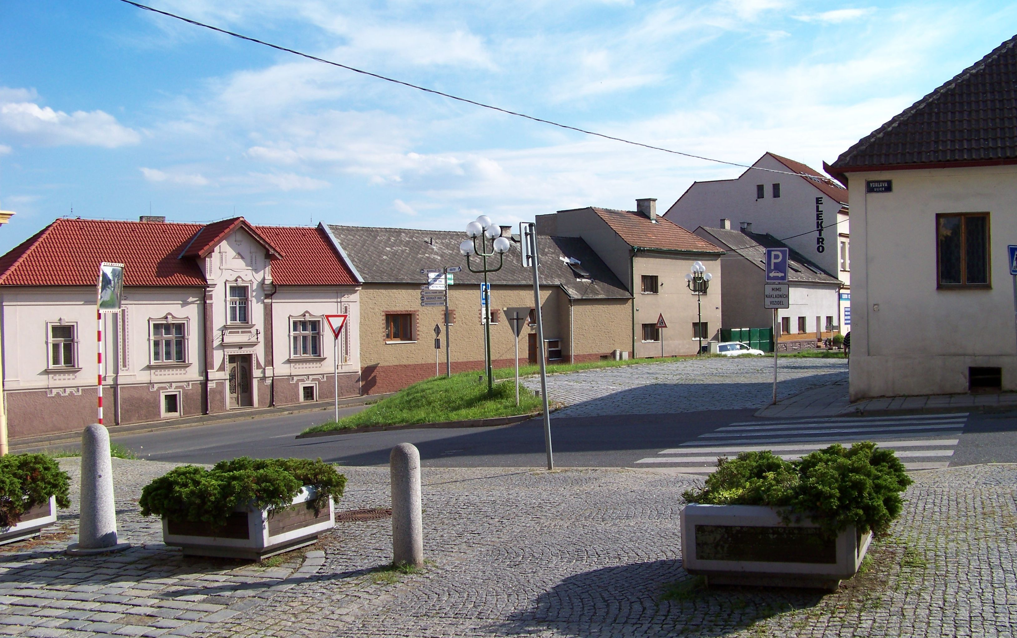 Zdice, Beroun District, Central Bohemian Region, the Czech Republic. Husova, Vorlova and Komenského streets.